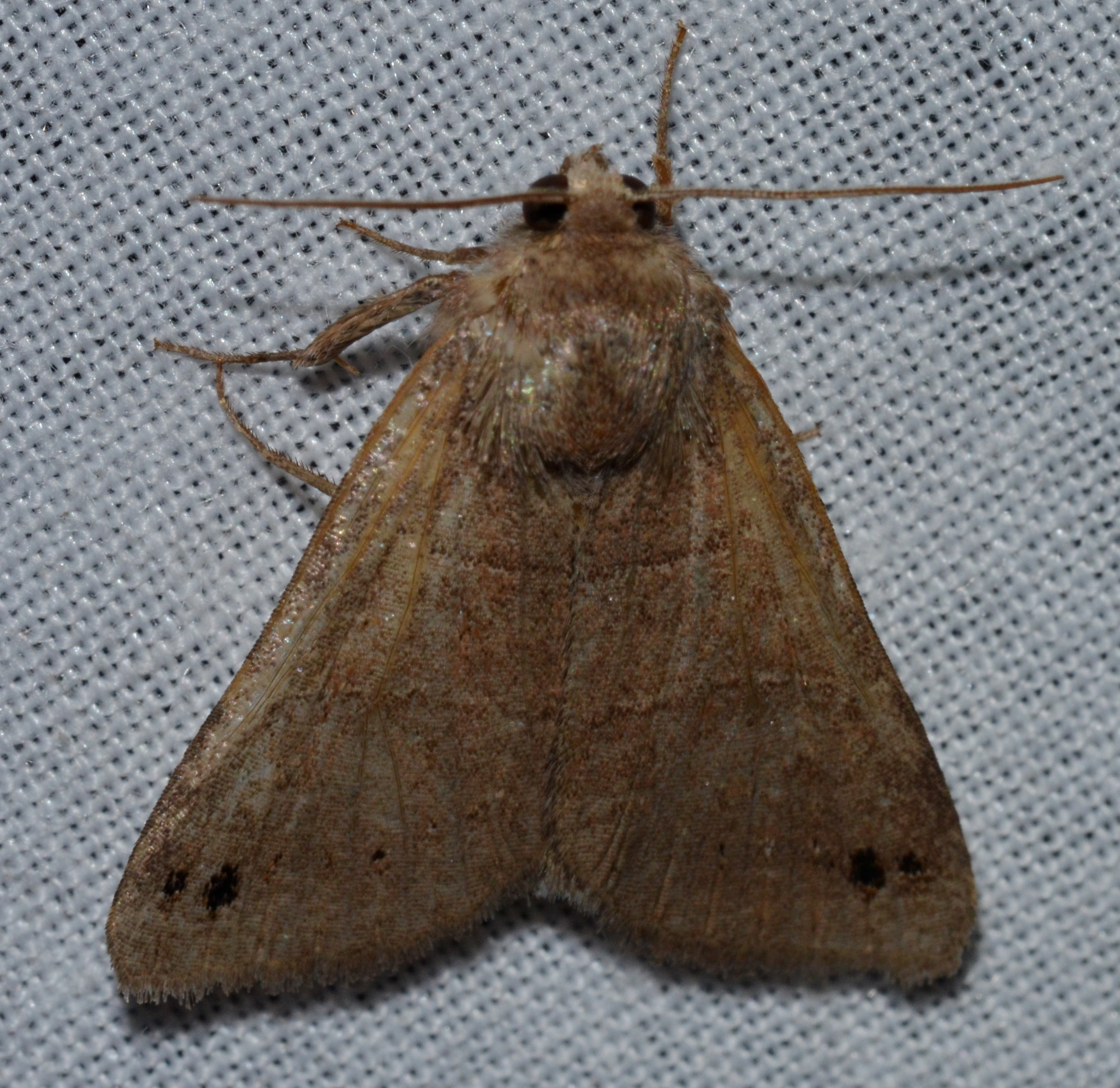 Mothing NIght 4/18/14